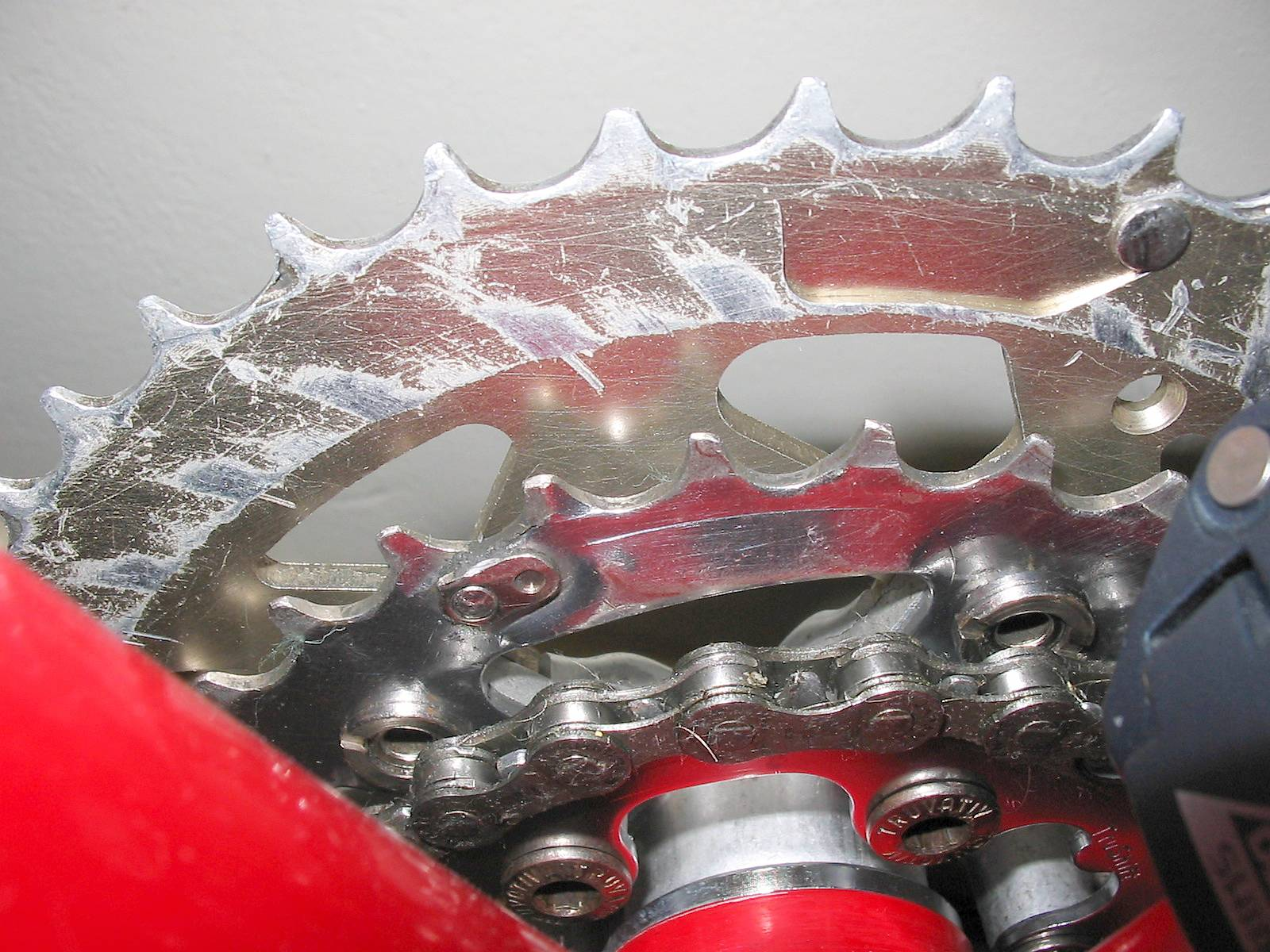 TruVativ TruShift ramps and pins